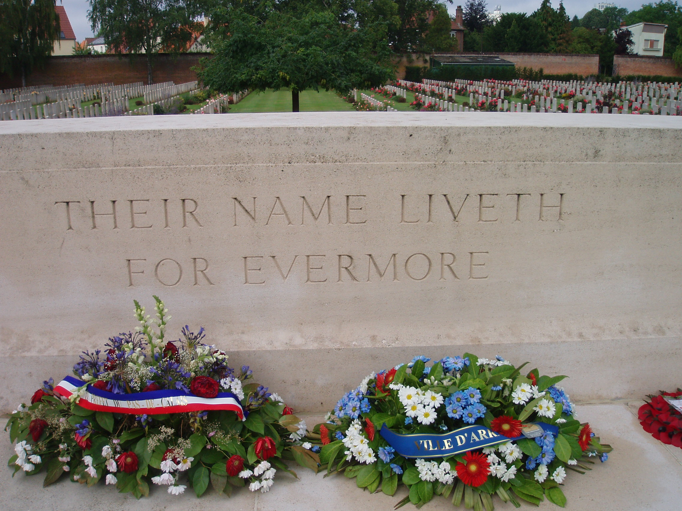 Stone of Remembrance at the Arras Memorial in the Faubourg d'Amiens British Cemetery, Arras, France.